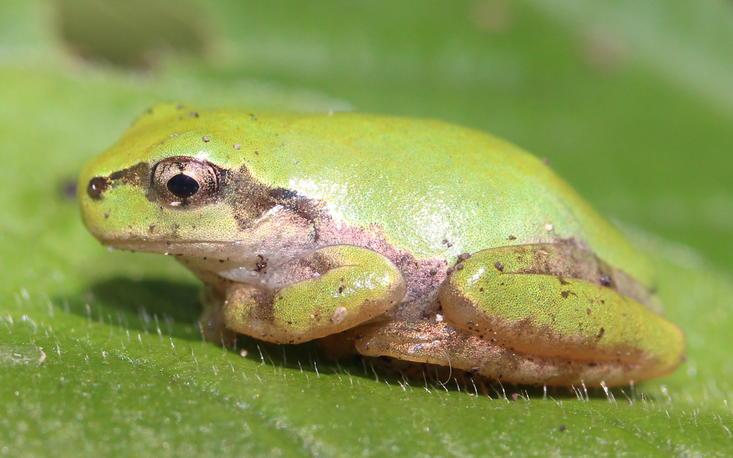 Japanese tree frog (Hyla japonica) on leaf in Japan.